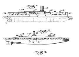 The original drawings from Thayer's patent application, 1902.